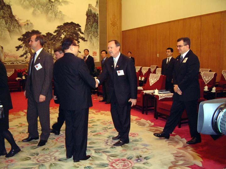 Keith Gottfried with Chinese PremierJiang Zemin in Beijing, China (April 2002)